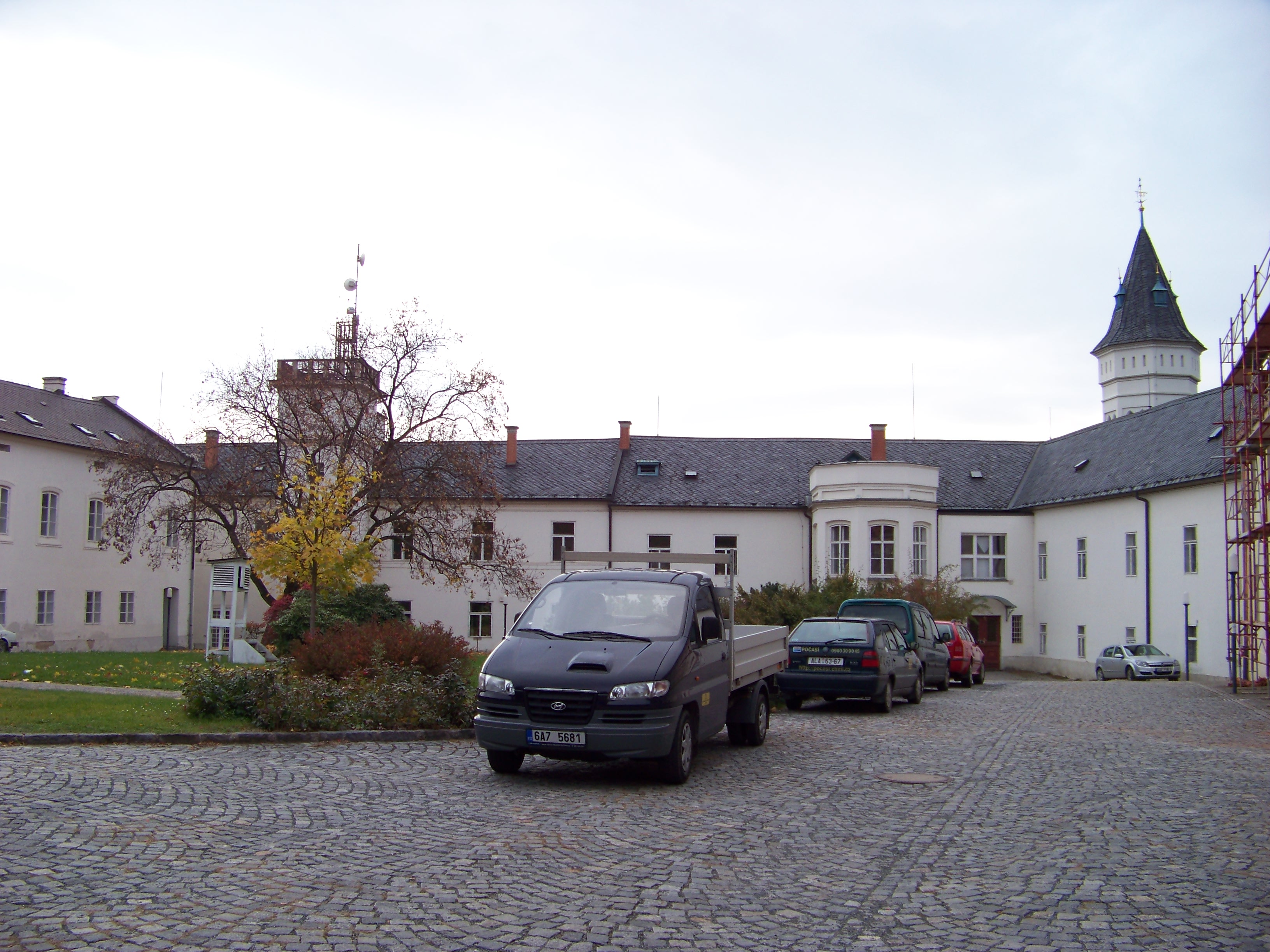 Prague-Komořany, the Czech Republic, Na Šabatce street, the castle. - Google Maps - Google Earth